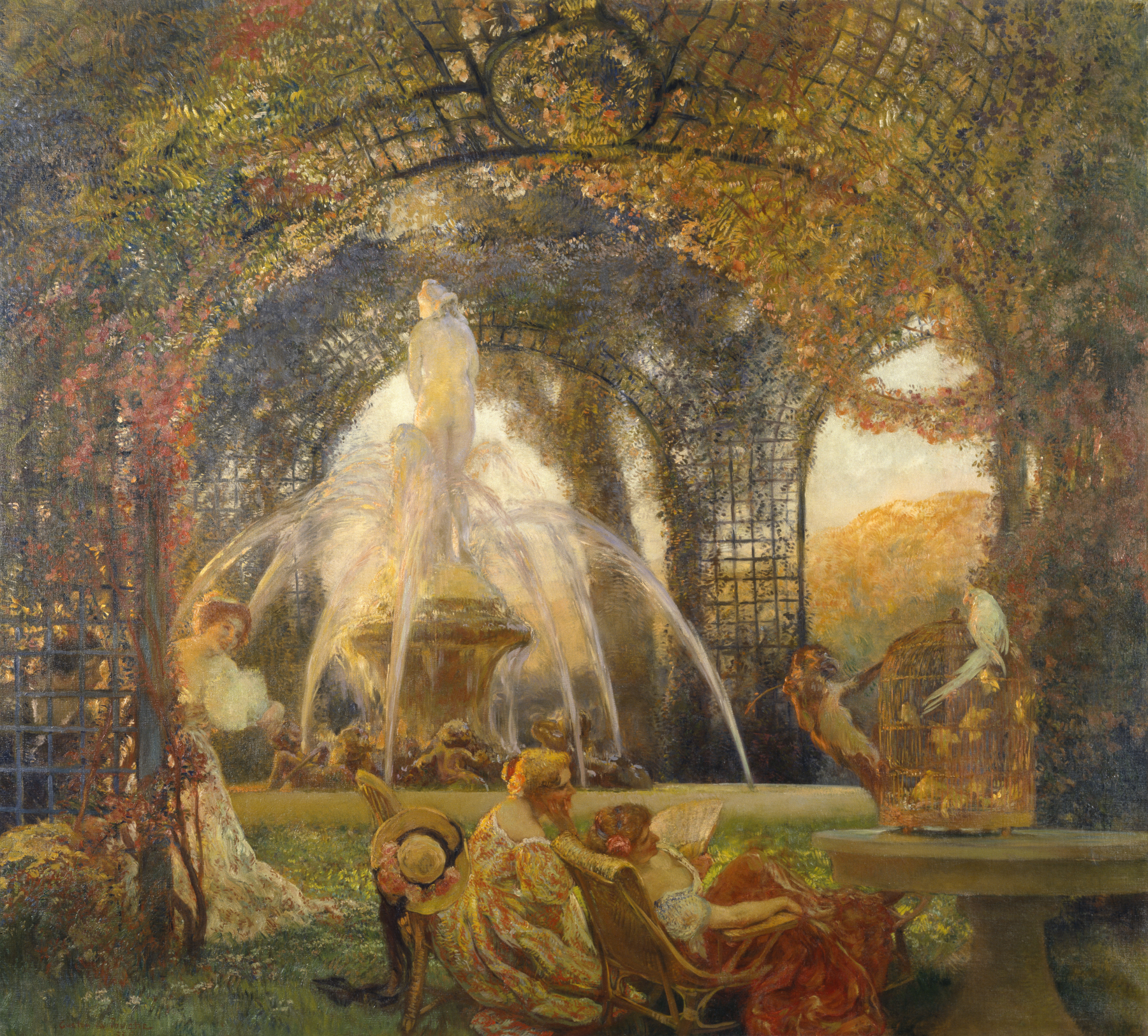 In his youth, La Touche frequented the same Paris cafés as the Impressionists and is reputed to have received advice from Edouard Manet and Edgar Degas. As a mature artist, he broke with his realist beginnings to paint in a harmonious decorative style that reflects the influence of the Rococo painters of the 18th century. For his wealthy clients, such scenes may have evoked nostalgia for the ancien régime of pre-Revolutionary France. La Touche joined Pierre Puvis de Chavannes in breaking with the official salons to become a member of the rival Société nationale des Beaux-Arts. In this scene, reminiscent of 17th-century fêtes-galantes, several women in colorful dress are relaxing in a park, either at Versailles or St.-Cloud. Two women resting in chairs in the foreground ignore a monkey who torments a white parrot perched in the bars of a gold cage. One woman holds a fan and one has hung her straw hat on the back of her chair. Another women stands off to the right, leaning against the arbor. There is a large, elaborate stone fountain in the background, with a nude sculpture at the top and putti figures encircling the base. It shoots several streams of water into the air. Thick vines and flowers grow over the arbor, and the grass is a lush green. The scene is bathed in a golden-orange light, which reflects on everything from the water in the fountain to the clothing of the women. La Touche's brilliant jewel tones and the relaxed poses of the women contribute to the airy and carefree atmosphere of this painting, recalling the Rococo scenes of the previous generation.